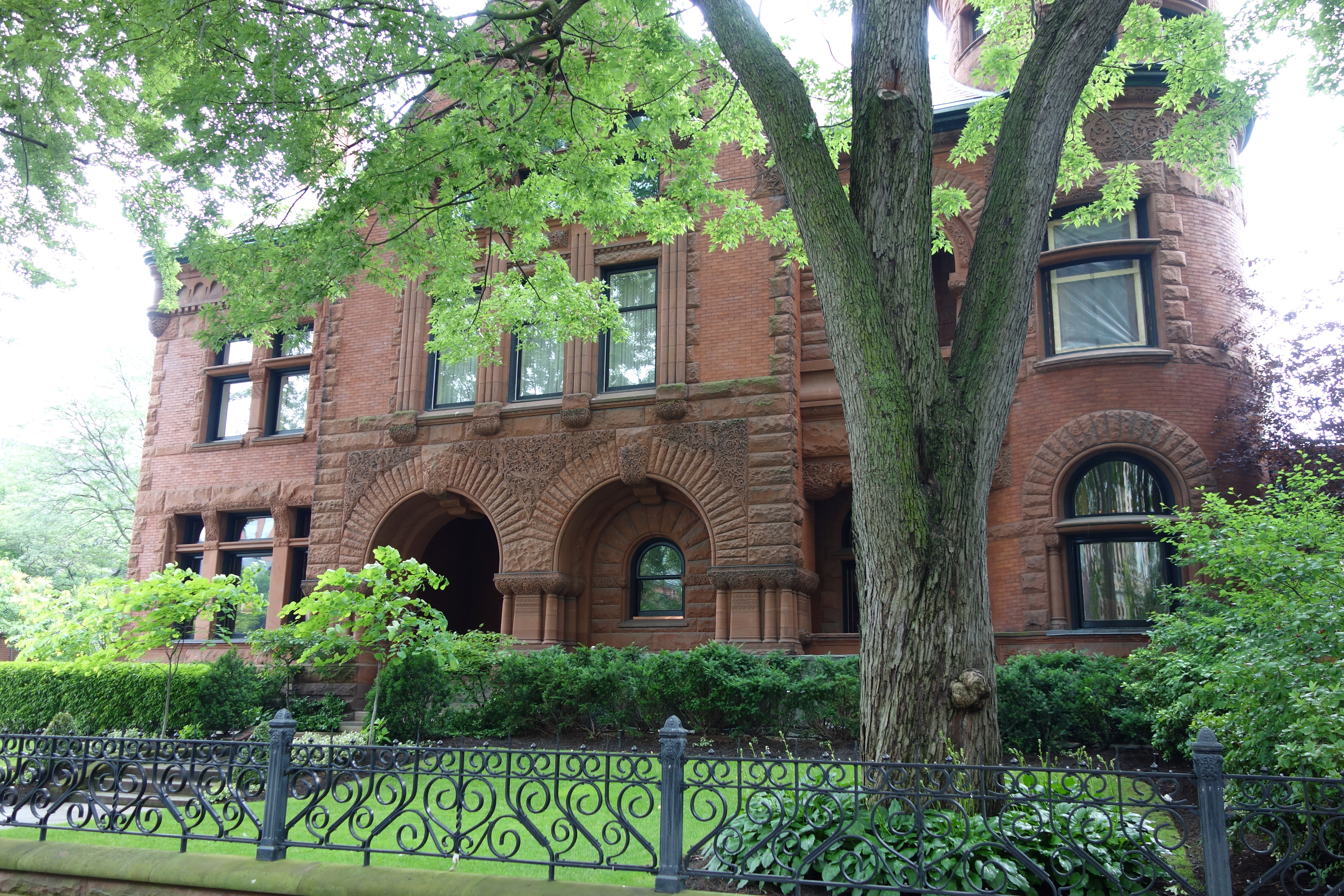 York Club, 135 St George Street, Toronto, Ontario, Canada. Formerly the home of George Gooderham Sr. (1830–1905).